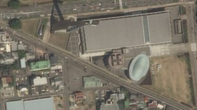 Satellite view